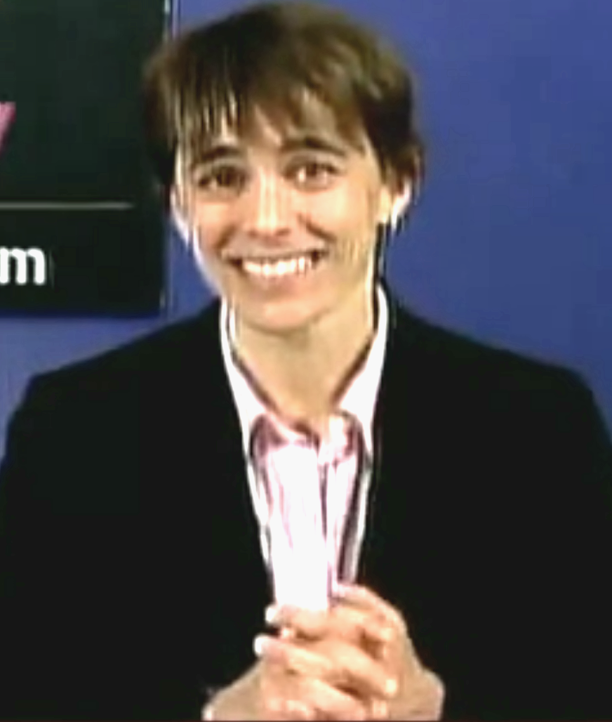 Deb Mell